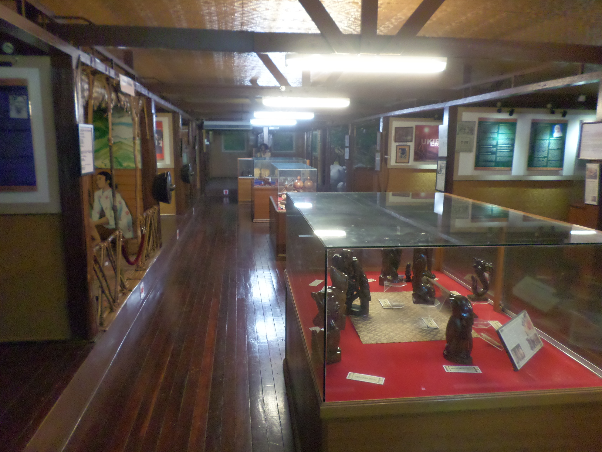 Aborigines Museum, Ayer Keroh, Malacca, MalaysiaBahasa Melayu: Muzium Orang Asli, Ayer Keroh, Melaka, Malaysia